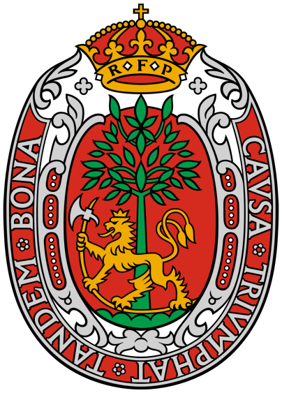 Coat of arms Kristiansand municipality